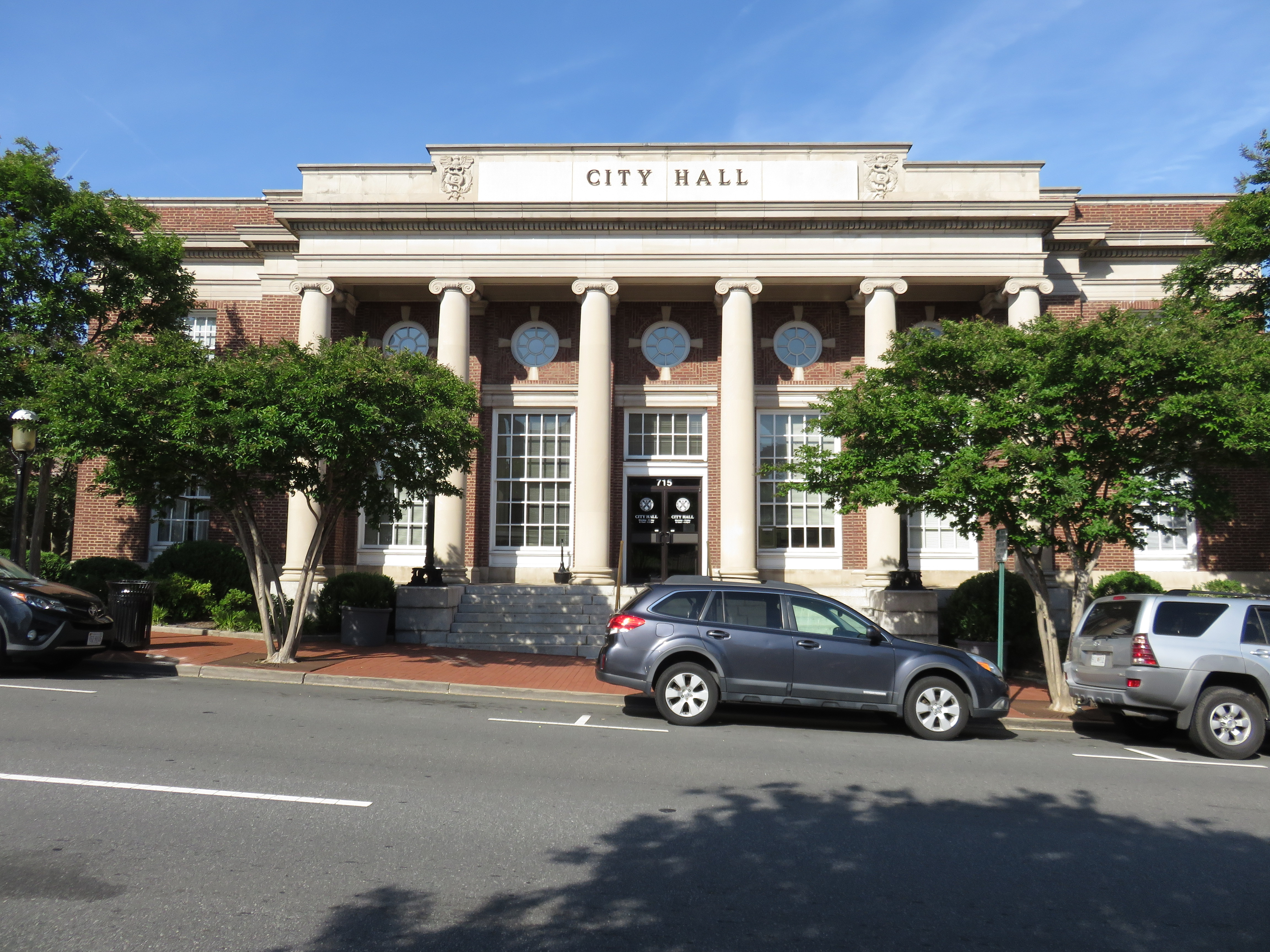 Fredericksburg City Hall in Fredericksburg, Virginia in 2017